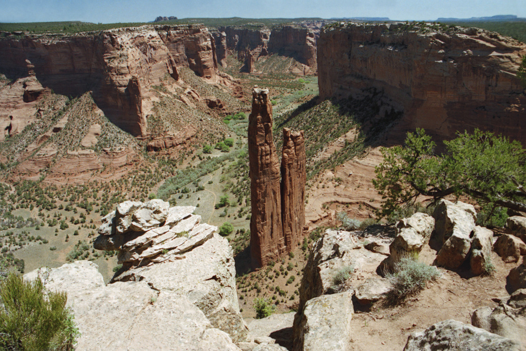 Canyon de Chelly National Monument, Arizona, USA, Spider Rock